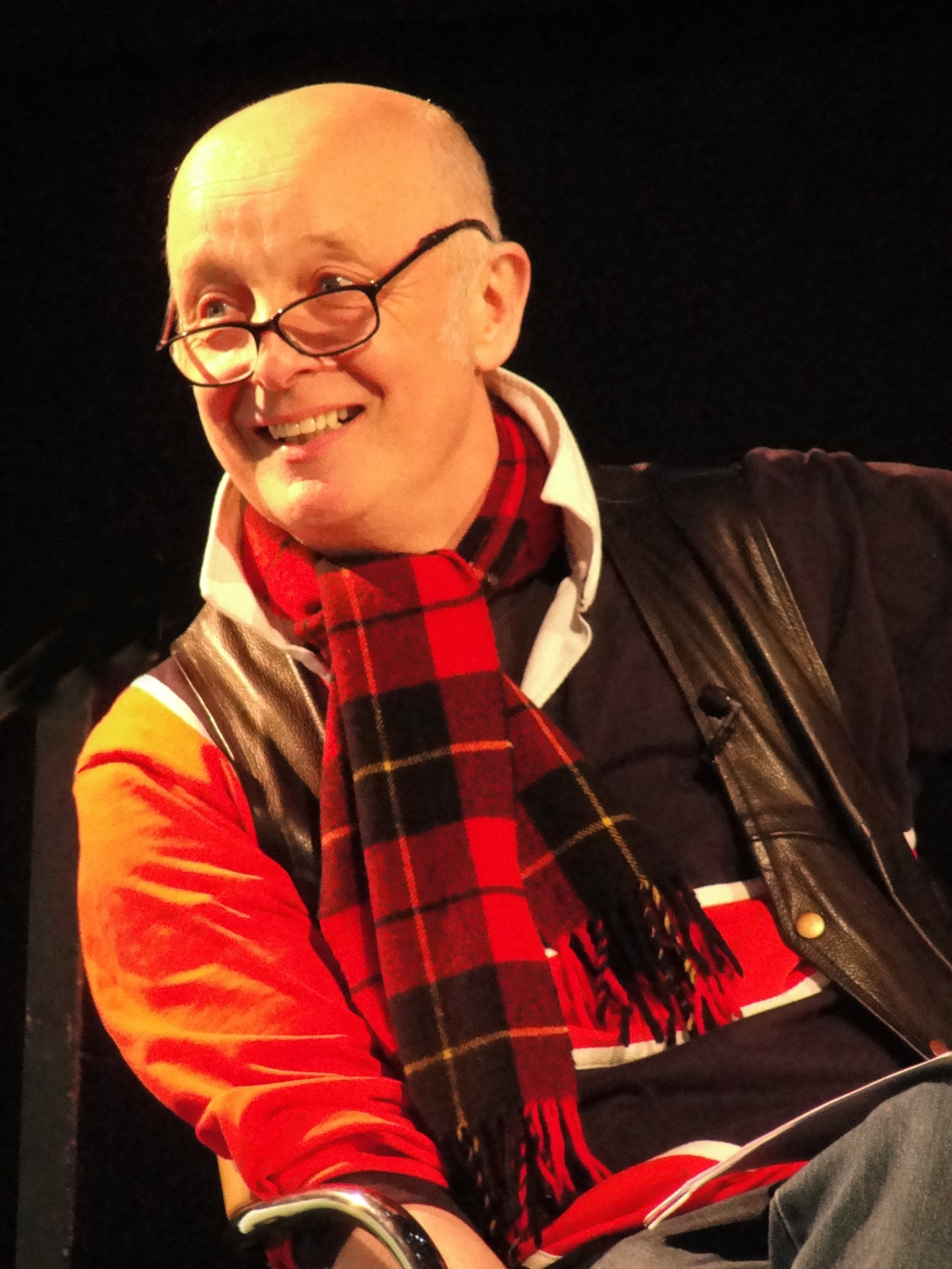 Kjartan-Poskitt at a book reading